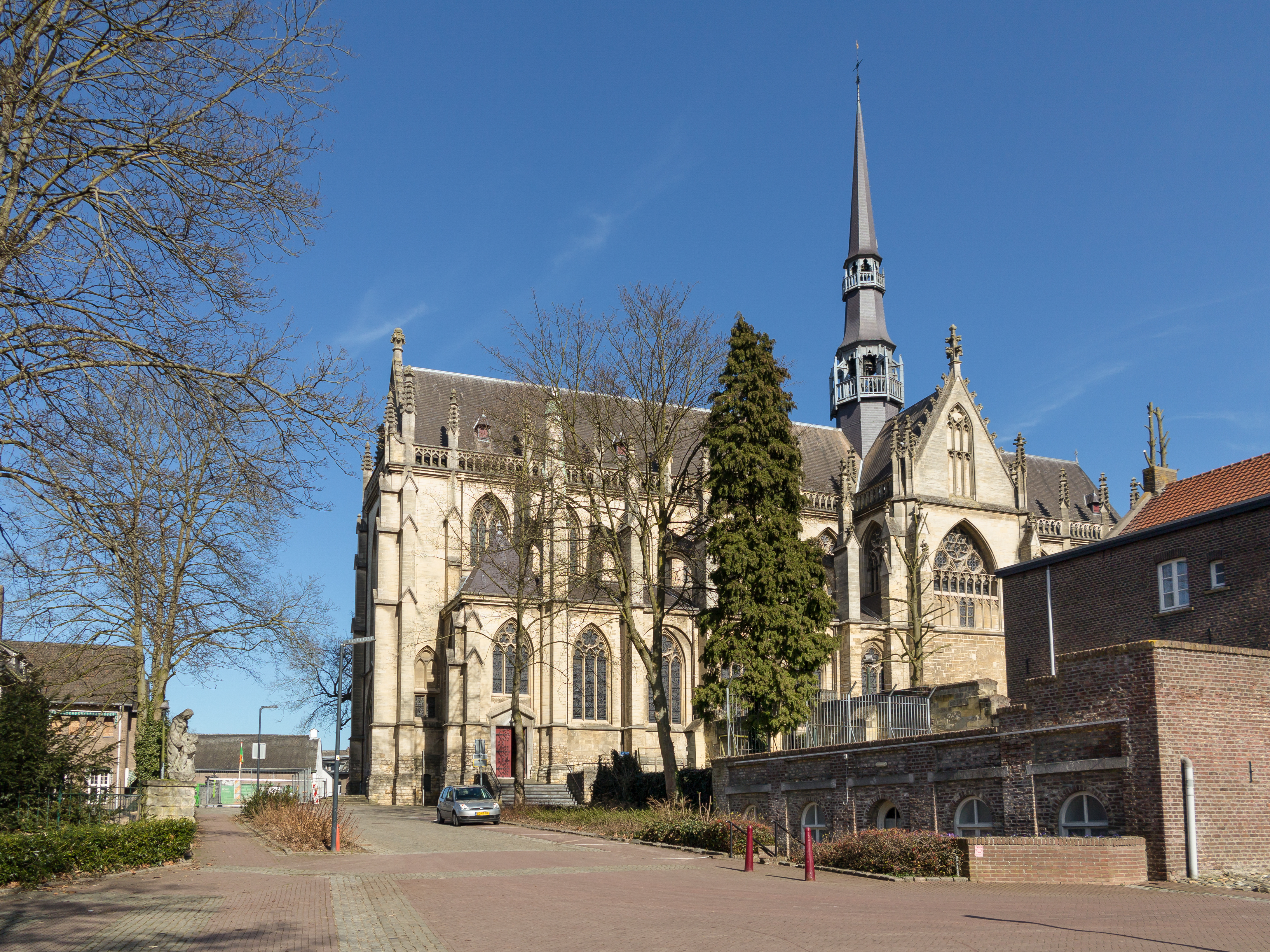 Meerssen, basilica: Basiliek van het Heilig Sacrament, Sint-Bartholomeusbasiliek